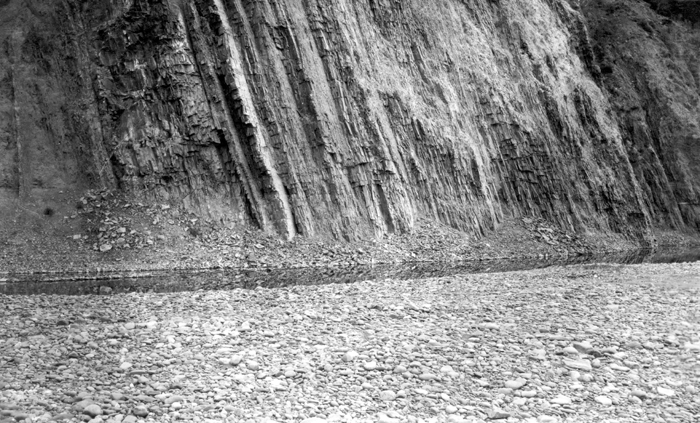 Structure and rapid alternation in bedding in Nanushuk Series on Anaktuvuk River, looking northeast. Anaktuvuk district, Northern Alaska region. Alaska. August 1901. Plate 12-B in U.S. Geological Survey. Professional paper 20. 1904. Image file